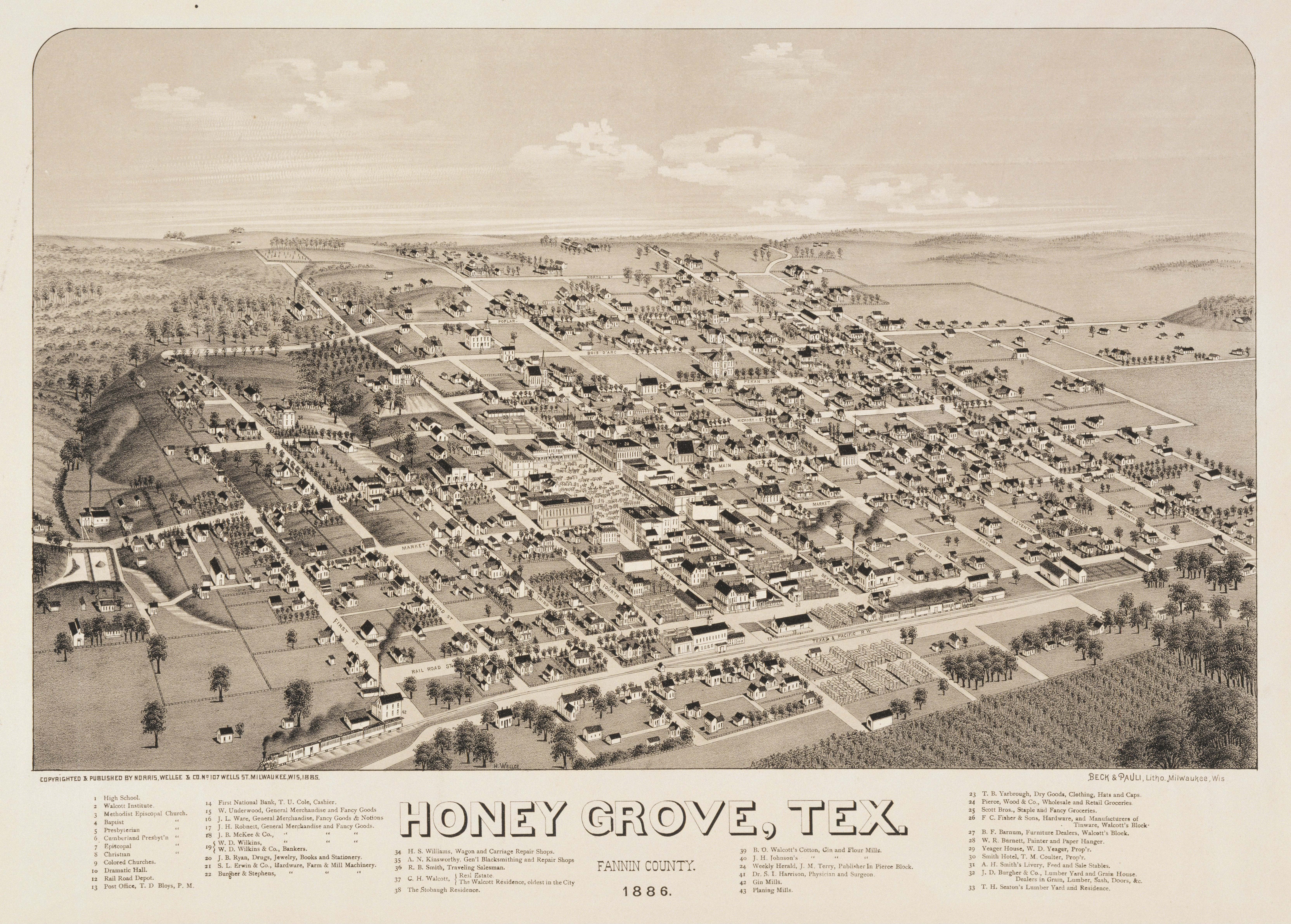 Honey Grove, Texas in 1886. Honey Grove, Tex. Fannin County. 1886, 1885. Toned lithograph, 12.8 x 20. 9 in.,by Beck & Pauli, Litho. Milwaukee, Wis. Published by Norris, Wellge & Co. Amon Carter Museum, Fort Worth.